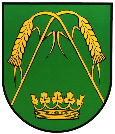 Coat of arms of Schauren